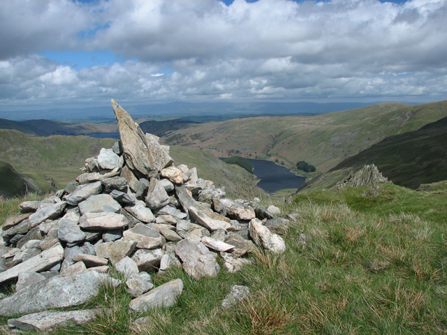 Mardale Ill Bell Summit Cairn. Looking towards Haweswater.